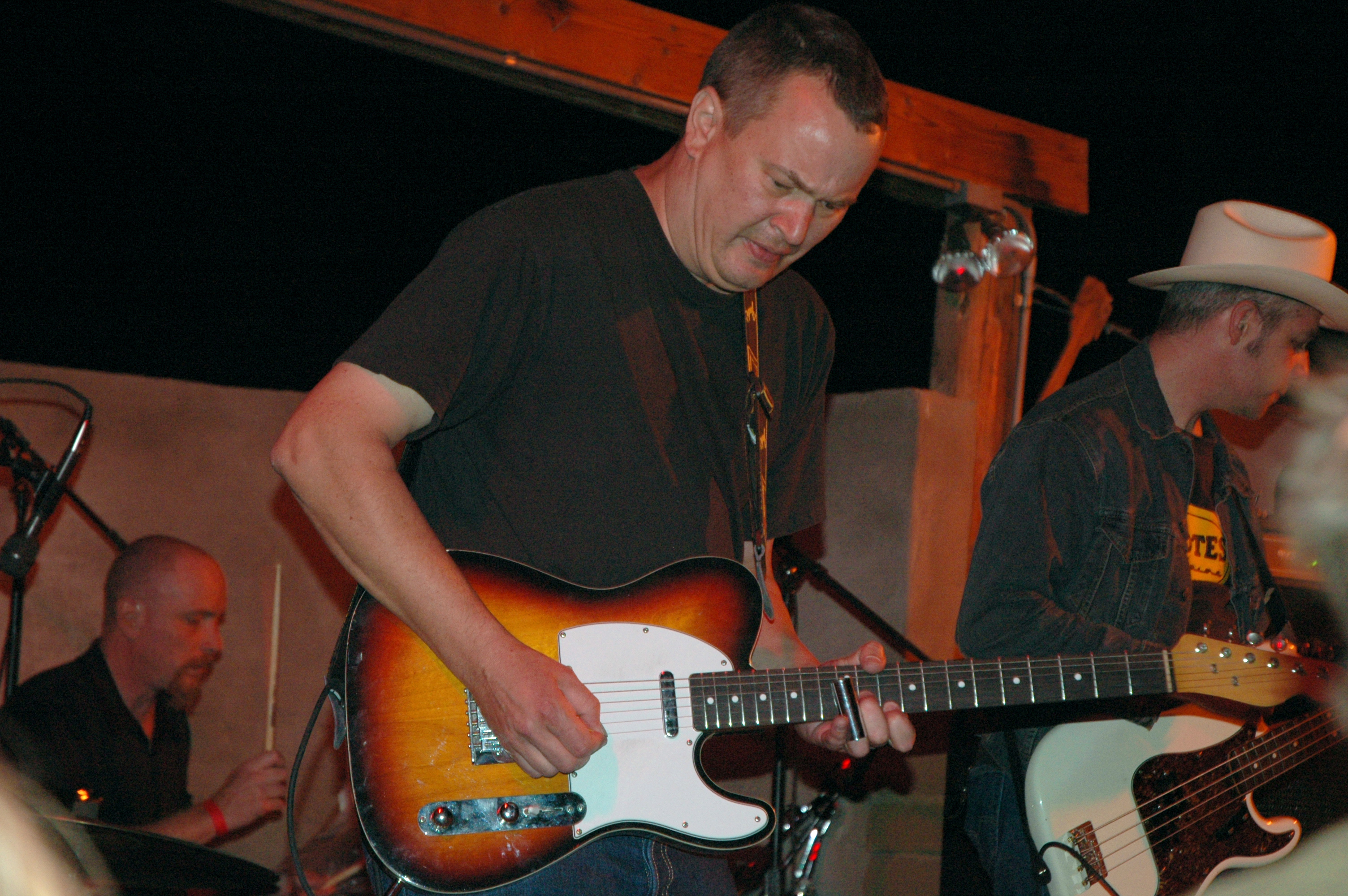 Camper Van Beethoven: Greg Lisher